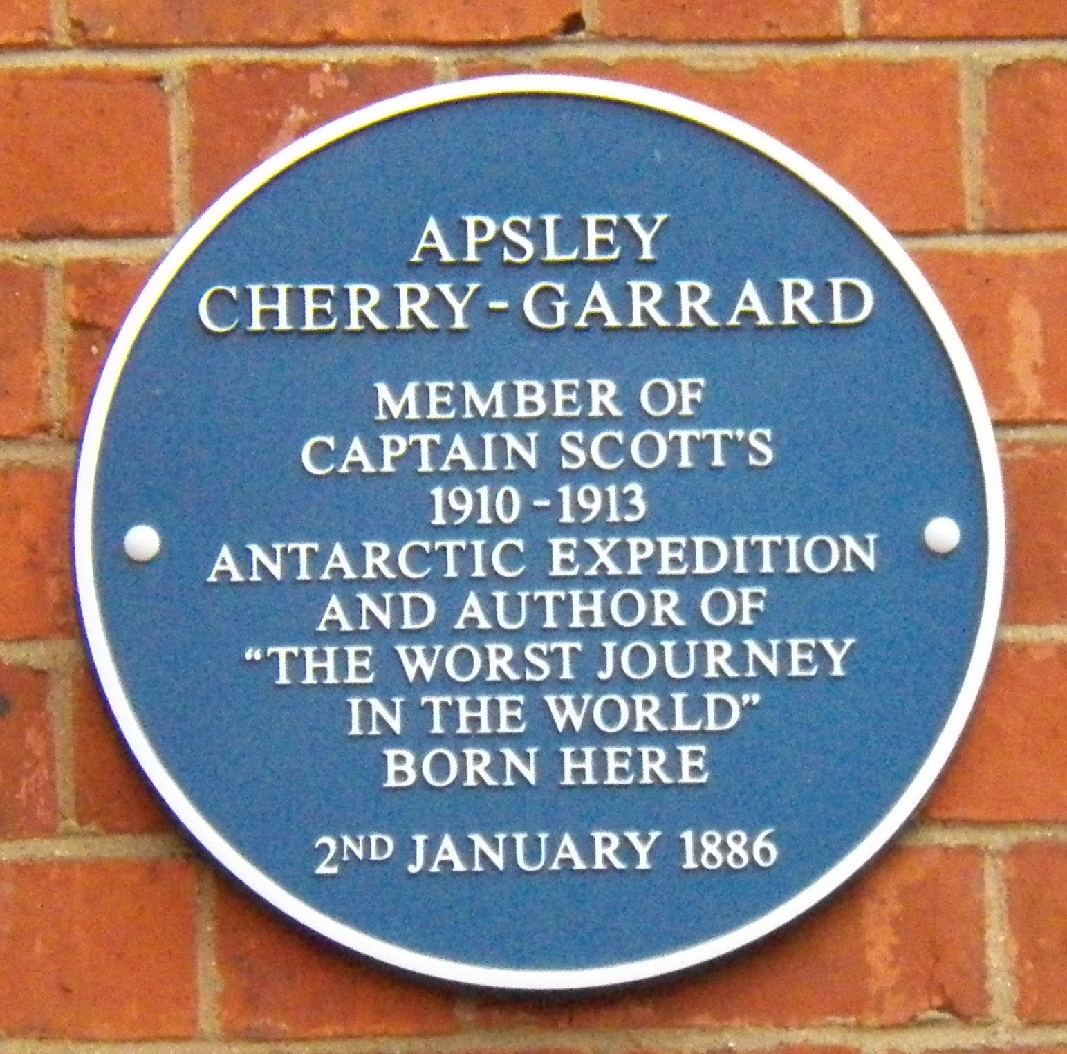 Plaque depicting the birthplace of polar explorer and writer Apsley Cherry-Garrard in Lansdowne Road, Bedford